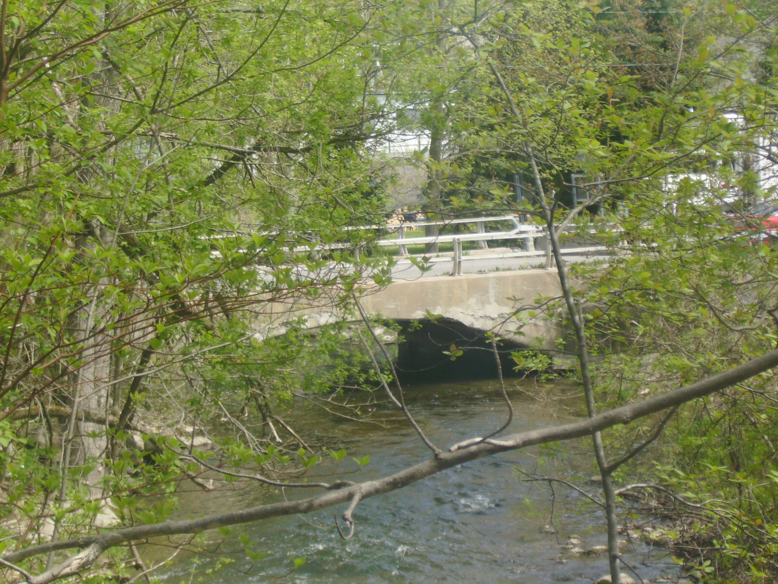 NY 31C (Valley Drive) bridge over Skaneateles Creek in Elbridge, New York as seen from Elbridge Memorial Park.